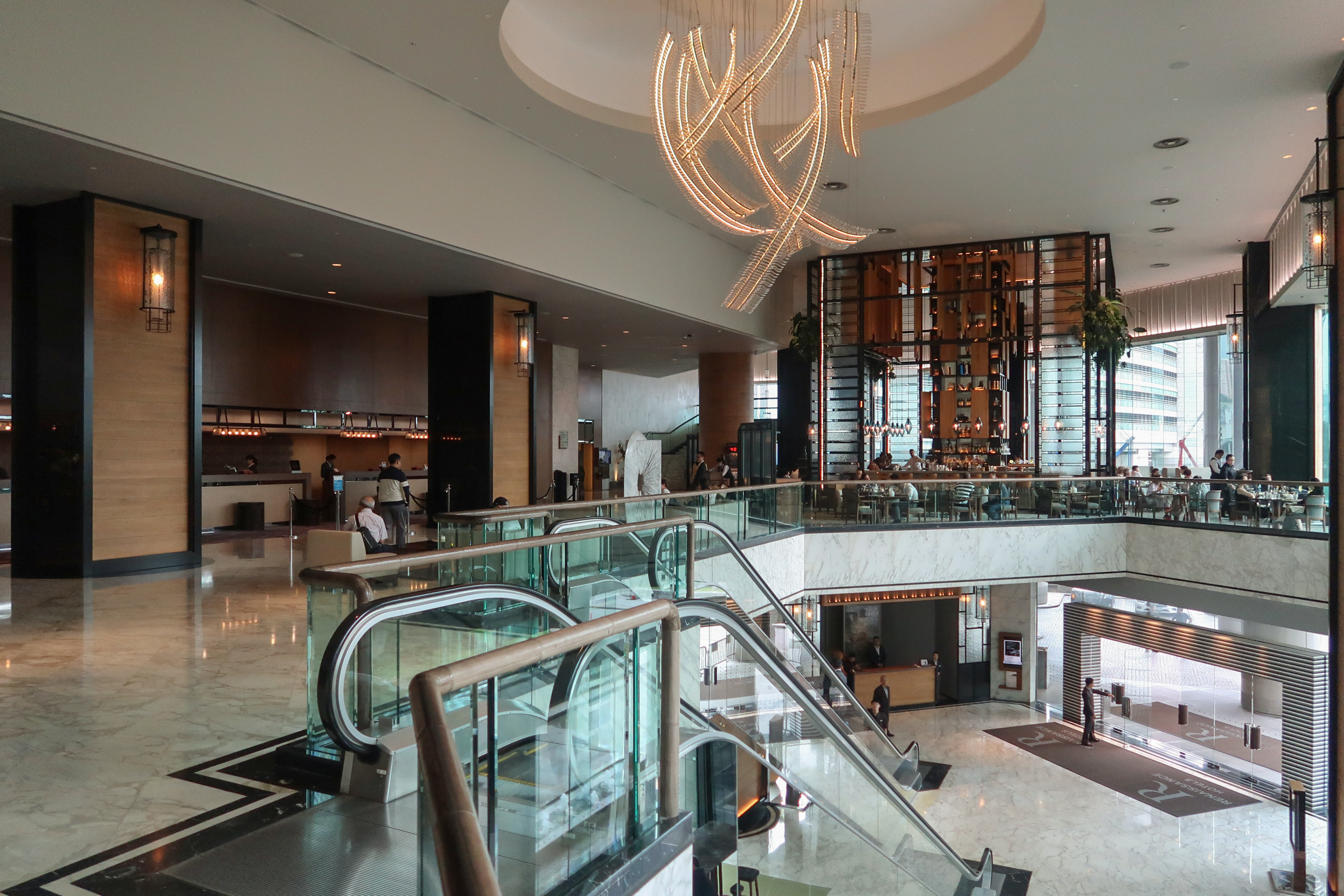 Renaissance Harbour View Hotel Lobby